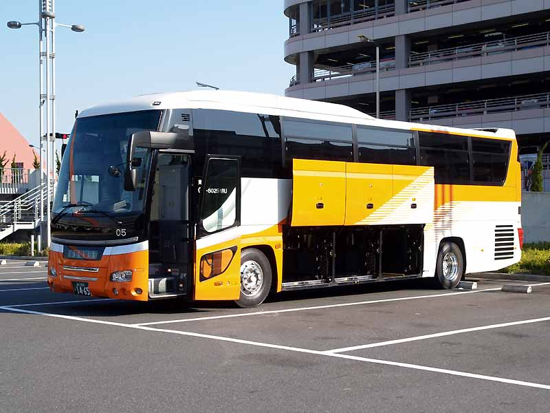 2nd generation of Hino Selega, all of under-floor baggage room door opened. Model: Hino Selega Super Hi-Decker ADG-RU1ESAA License Plate:TKS200 KA1465 Operator: Airport Transport Service Co.,Ltd (Tokyo Kuko Kotsu: a.k.a. Limousine Bus) Own number: 05-60251RU Place: Tokyo International Airport (Haneda Airport), Tokyo, Japan 日野セレガSHD（スーパーハイデッカー車）の床下荷物室のドアをすべて開けた状態。2代目セレガ／ガーラではスーパーハイデッカーを含む全車で機関直結式エアコンを標準採用する。このため床下ホイールベース部分を荷物室に充てた場合、スーパーハイデッカー車では10立方メートルを確保する。 登録番号：品川200か1465 撮影地：東京国際空港第一ターミナル付近